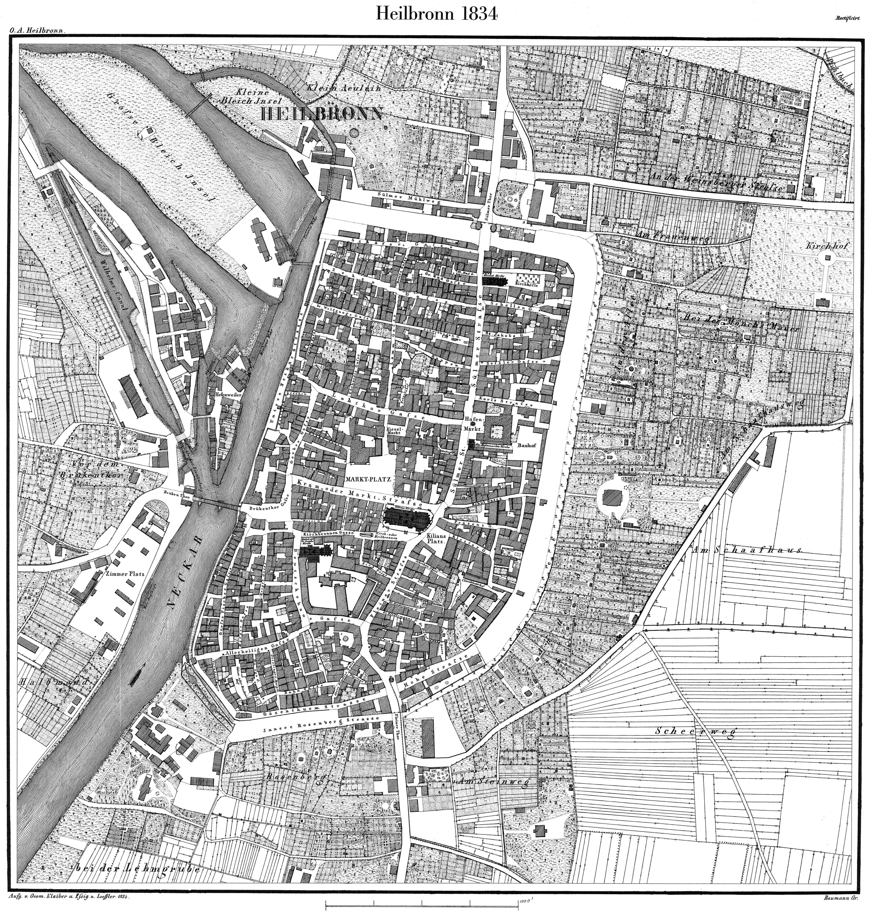 Map of Heilbronn from 1834, scale 1:2500